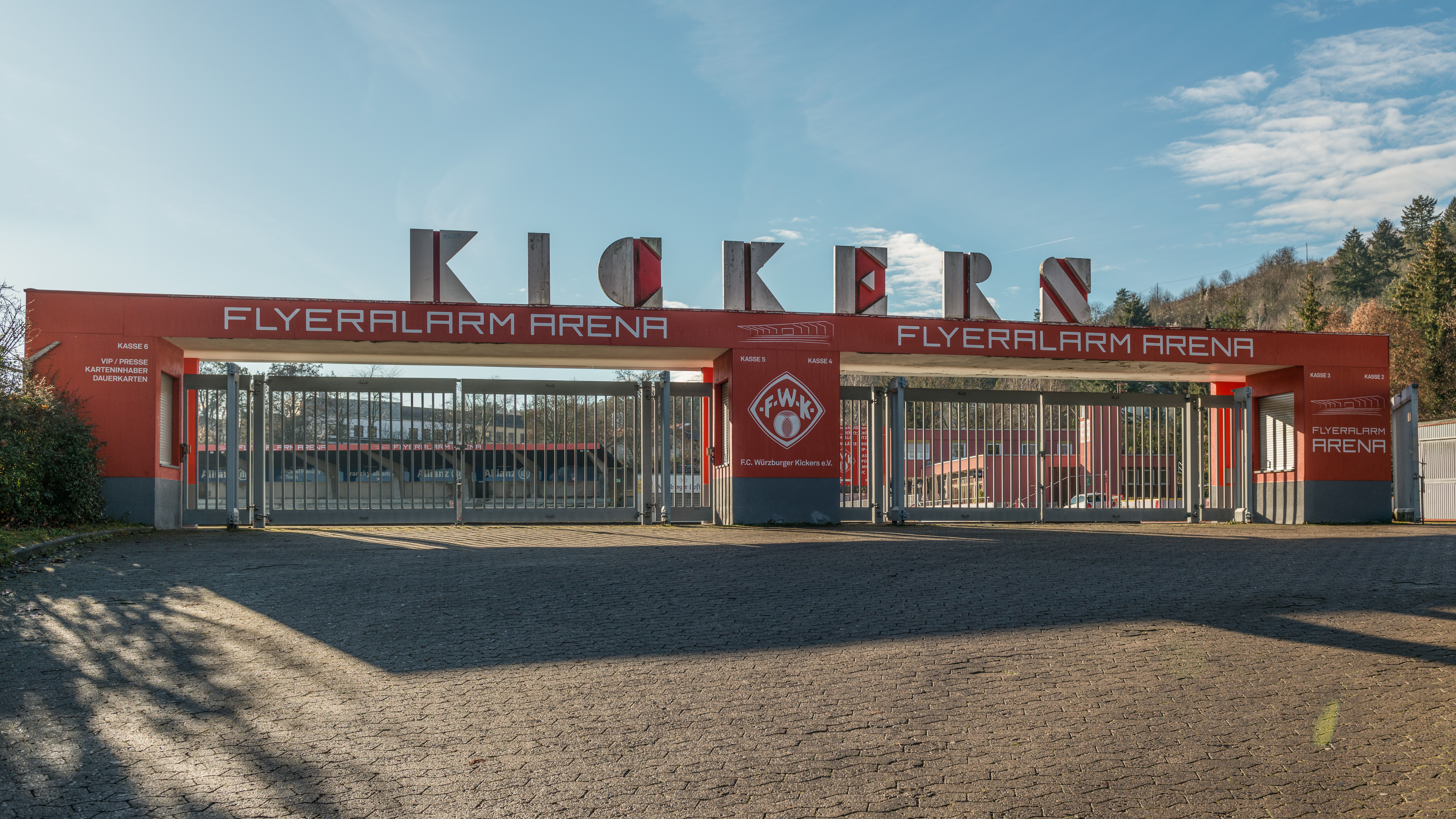 The Entry to the Flyeralarm Arena, the home of the FC Würzburger Kickers